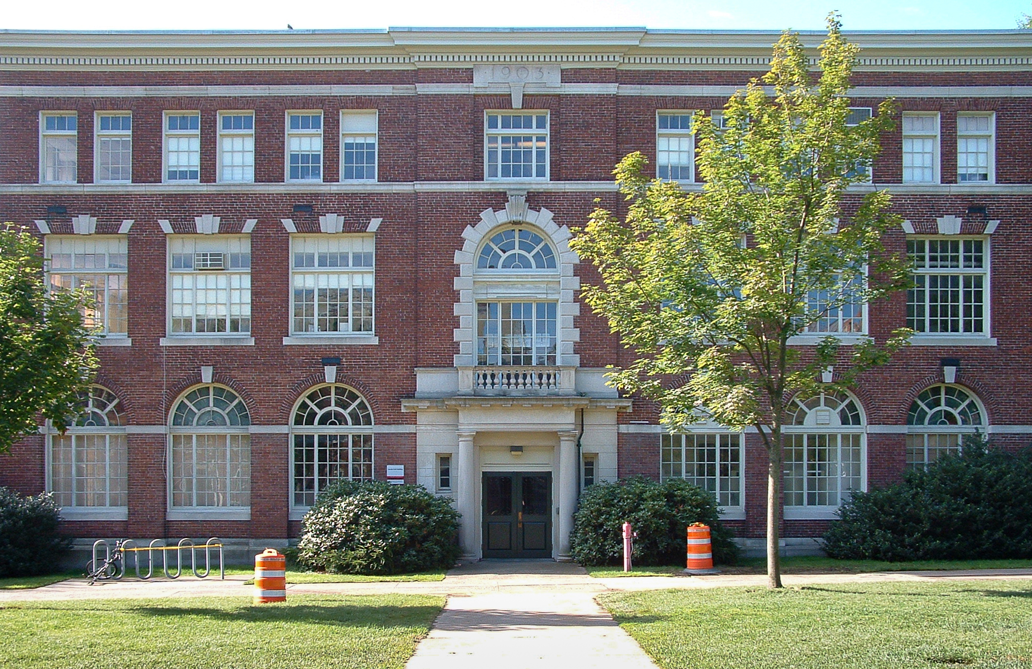 Brown University - Lincoln Field Building